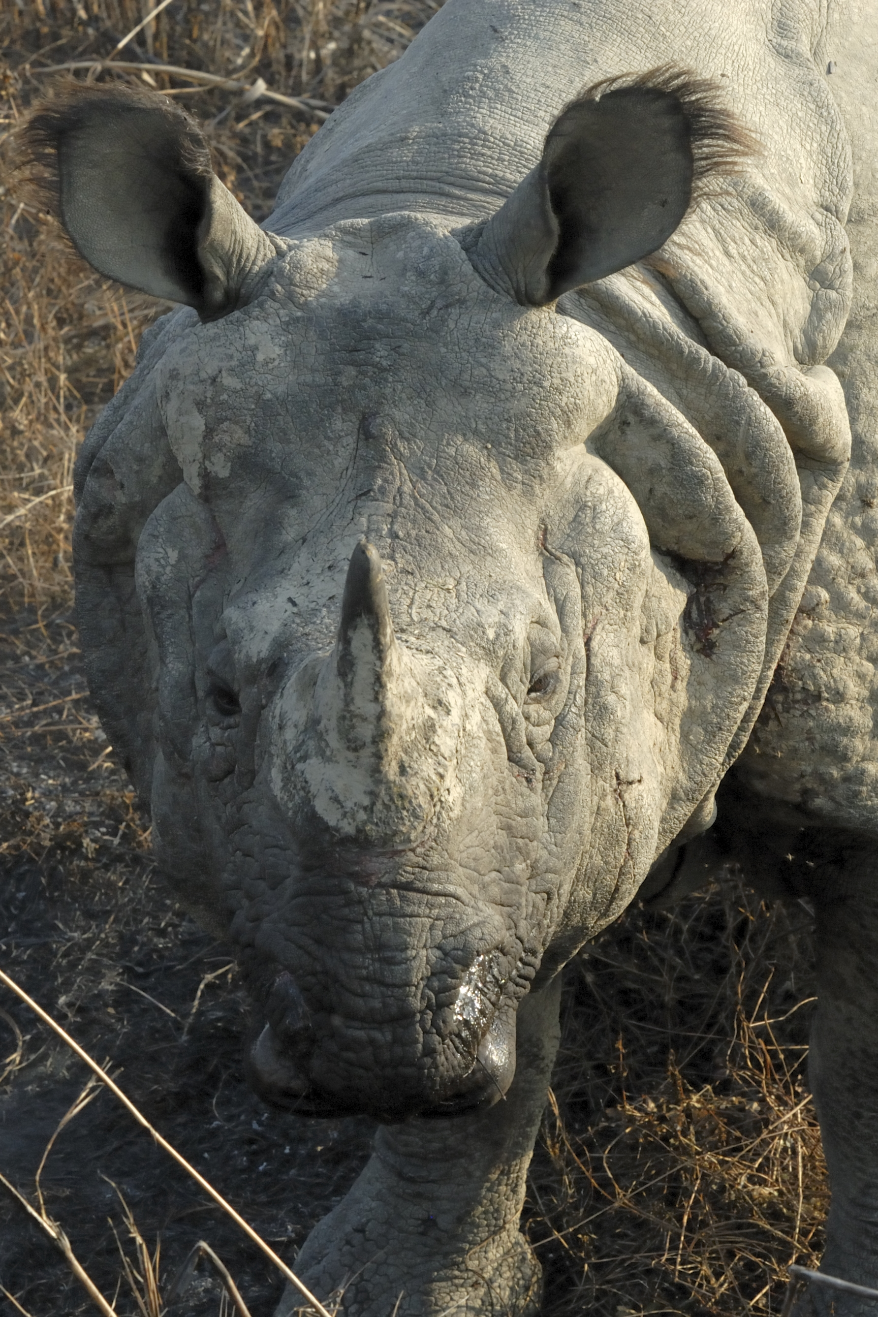 Rhinoceros unicornis - Pure Nepalese One Horn Rhinoceros in Chitwan National Park . The one horn rhinos are only found in Nepal not even in India.